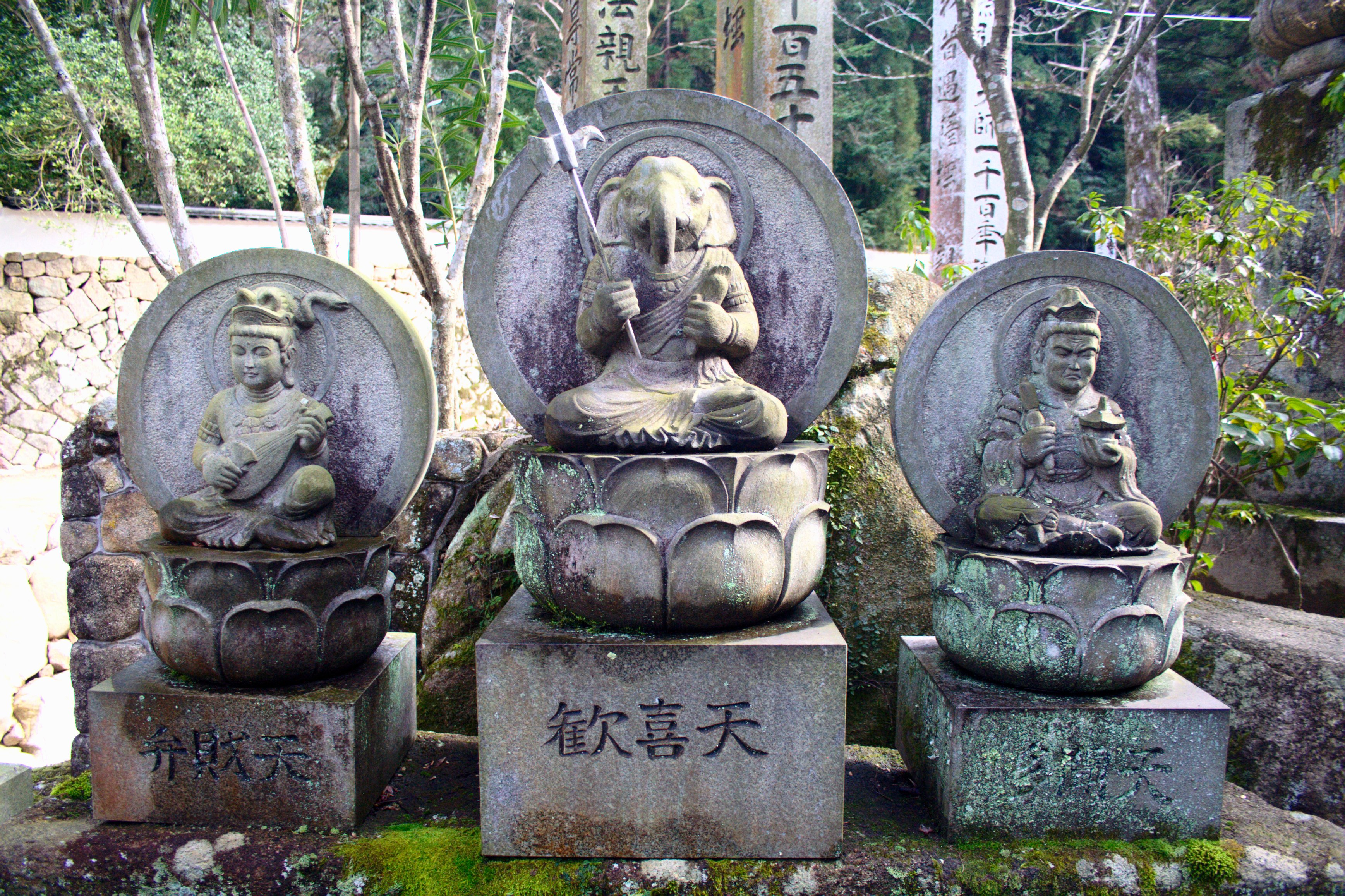 What is Ganesh doing at a Buddhist temple?